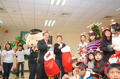 Deliver Love with THSR to remote village children